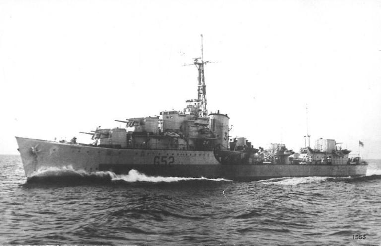 Photograph of British destroyer HMS Matchless.